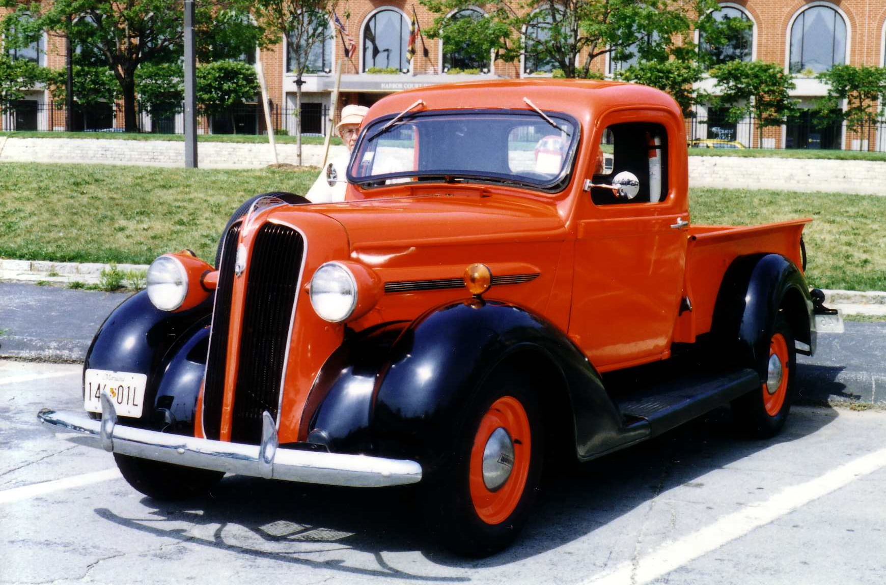 Plymouth pickup truck - all original - finished in red with black accents. Picture taken a car show in Baltimore, Maryland.